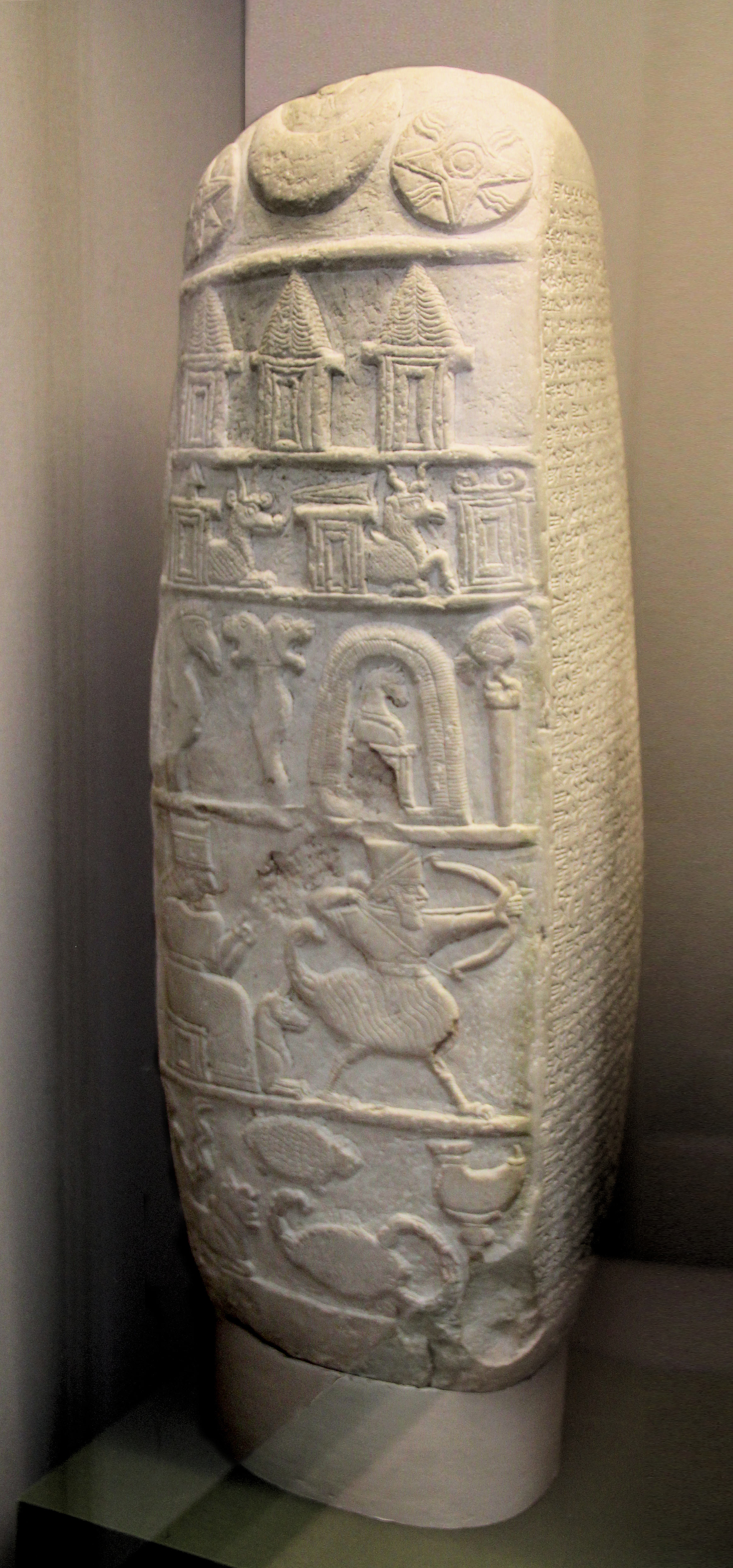 Babylonian Limestone Boundary Stele (Kudurru), Reign of Nebuchadnezzar I Mesopotamia 1500-539 BC Gallery, British Museum, London, England, UK. Complete indexed photo collection at .